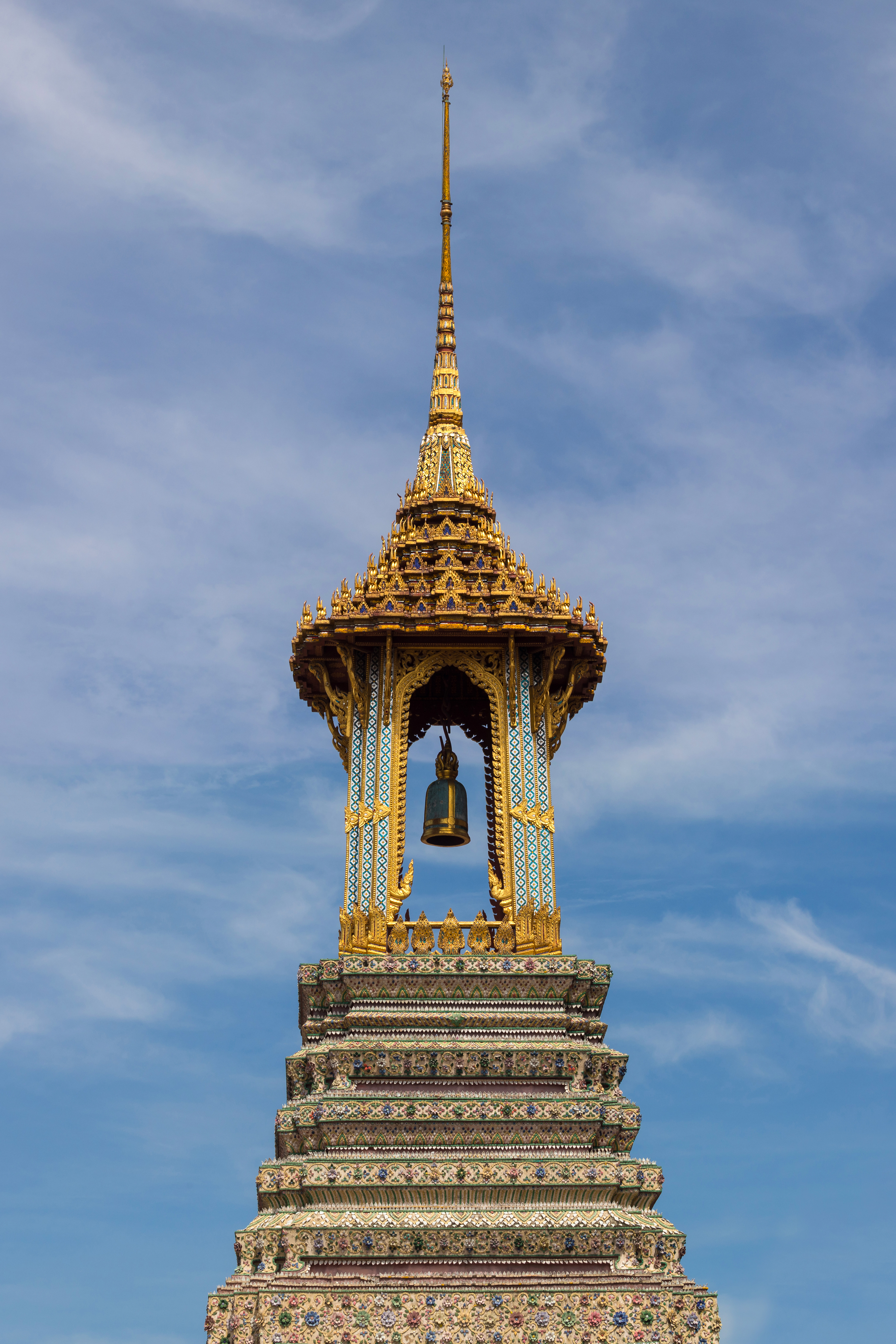 Bell tower (belfry), front view, upper part, at Wat Phra Kaew, Temple of Emerald Buddha, within the precincts of the Grand Palace, in Bangkok, Thailand.